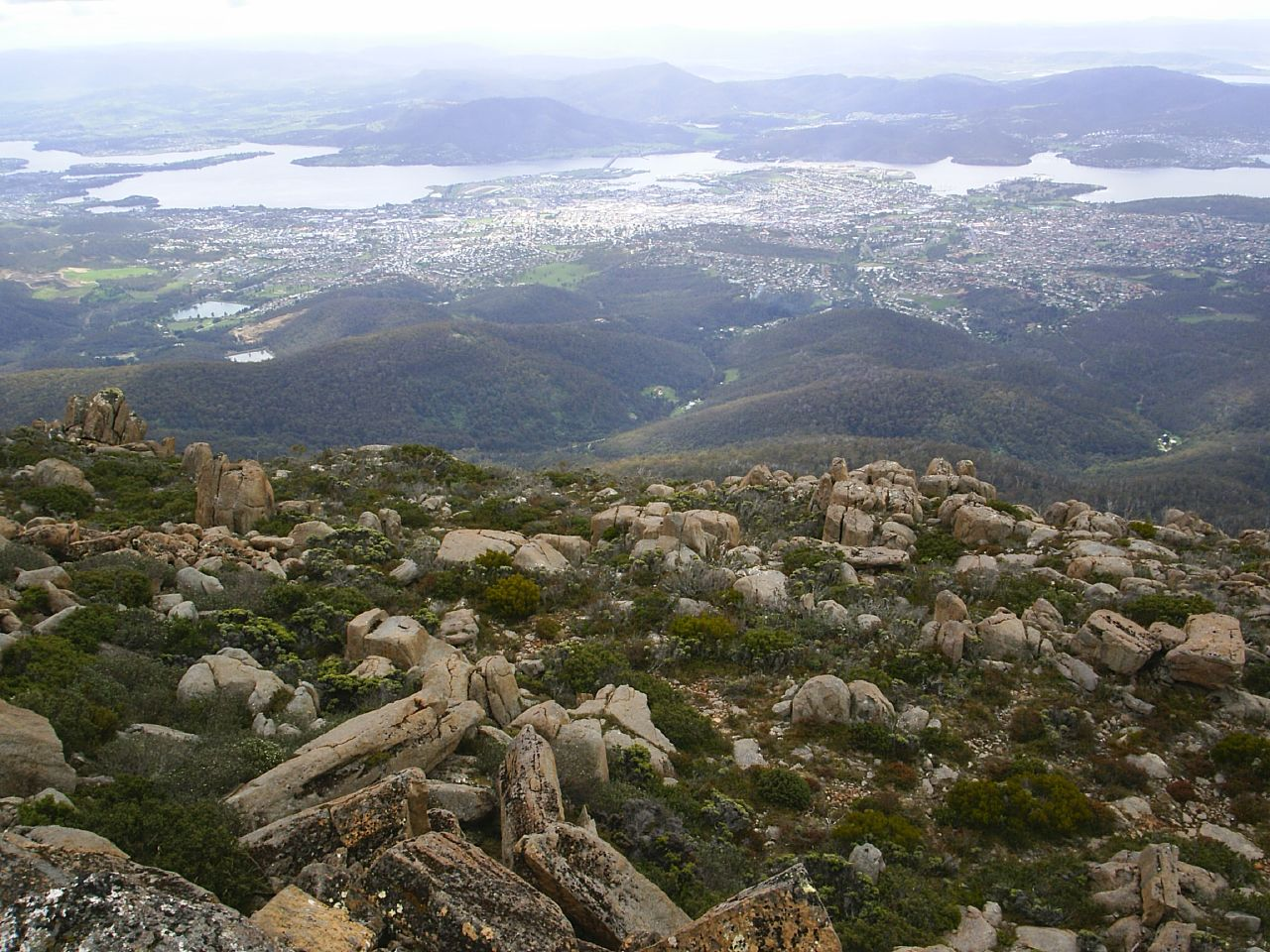 M4034S-4208 See where this photo was taken at Yuan.CC Maps .